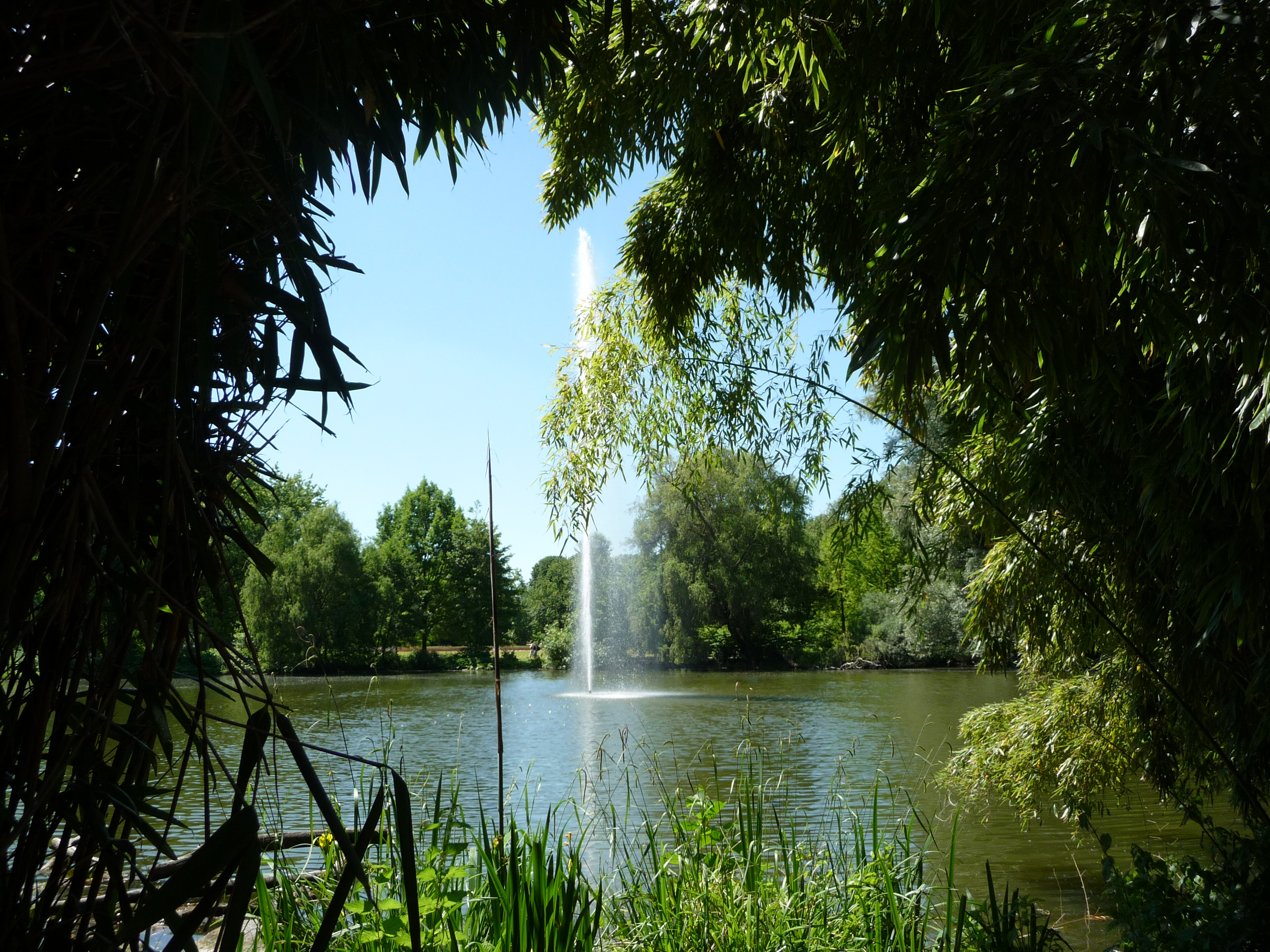 Herzogenriedpark Mannheim